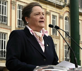 Clara Lopez Obregón